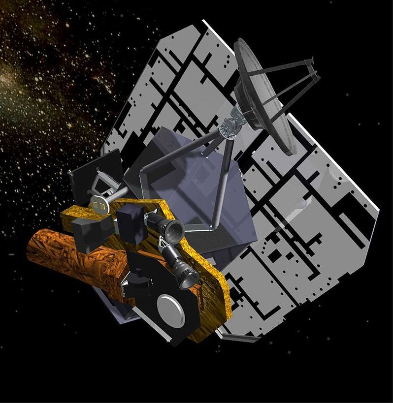 Part of the picture, showing only the spacecraft Deep Impact from the computer animation